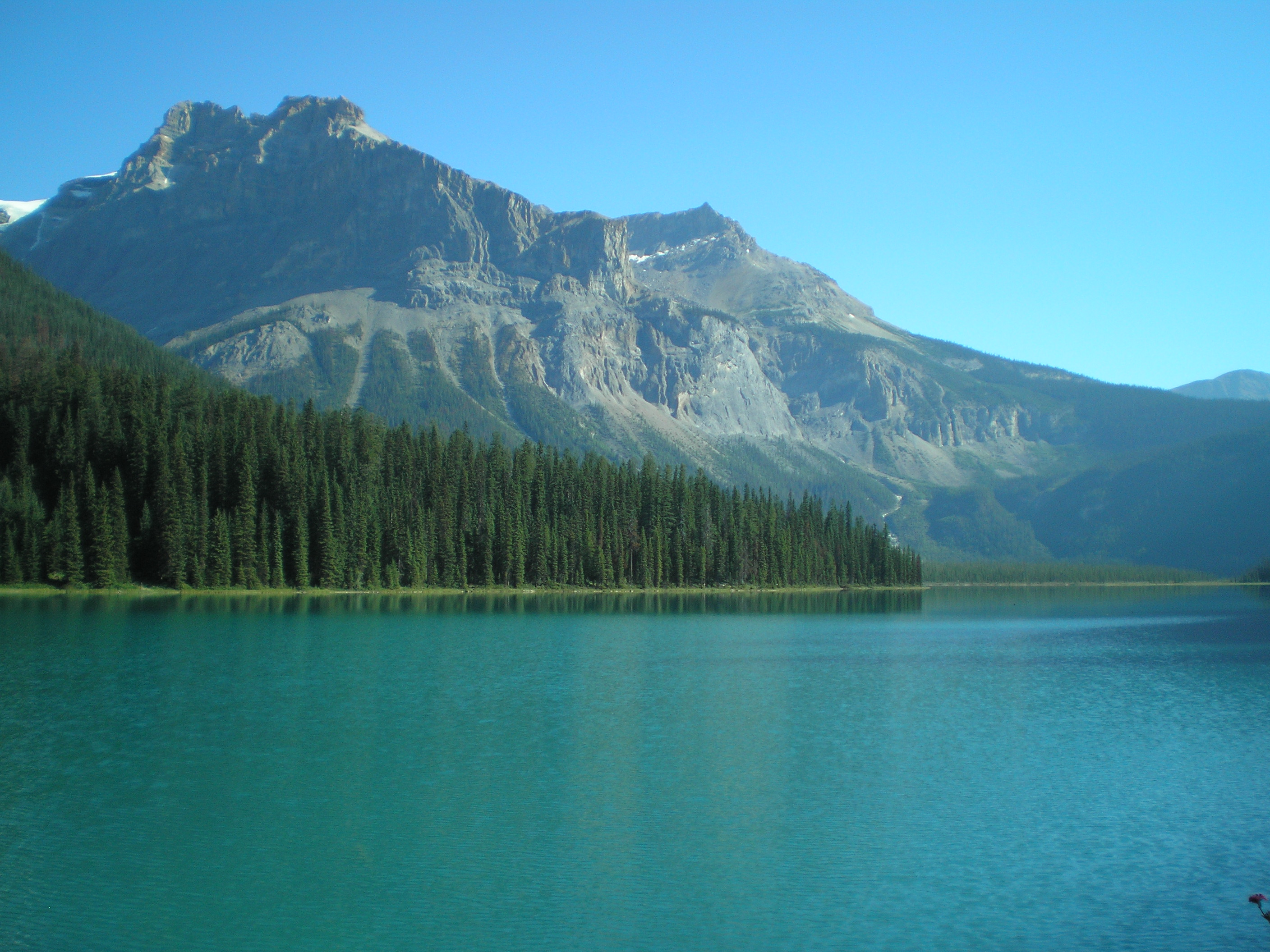 Emerald Lake in Yoho National Park, British Columbia, Canada.